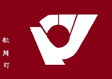 Flag of Matsukawa Nagano